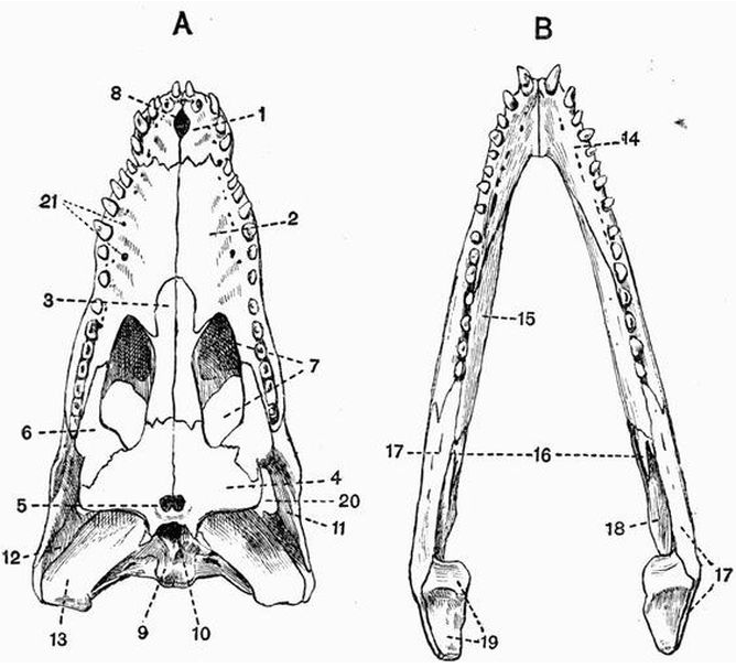 Palatal aspect A, of the cranium, B, of the mandible of an Alligator (Caiman latirostris). × 1. premaxillae. 12. quadratojugal. 2. maxillae. 13. quadrate. 3. palatine. 14. dentary. 4. pterygoid. 15. splenial. 5. posterior nares. 16. coronoid. 6. transpalatine. 17. supra-angular. 7. posterior palatine vacuity. 18. angular. 8. anterior palatine vacuity. 19. articular. 9. basi-occipital. 20. lateral temporal fossa. 10. opening of median 21. openings of vascular canals Eustachian canal. leading into alveolar sinus. 11. jugal.